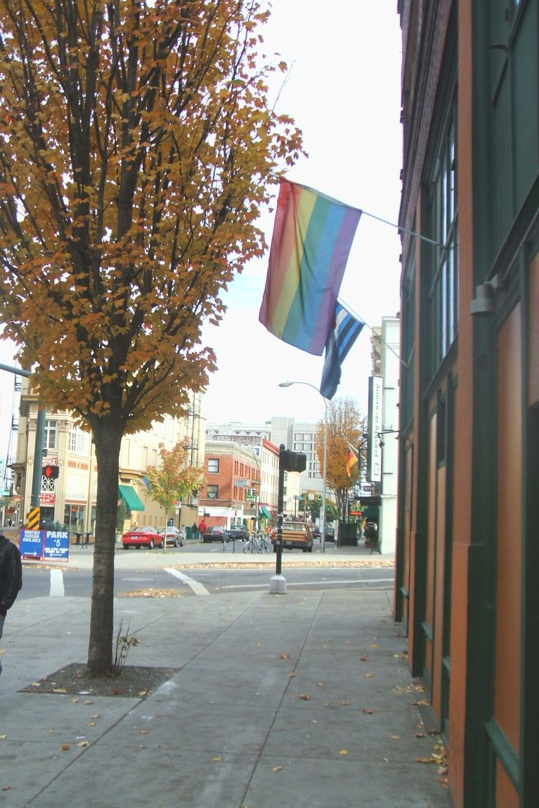 This is a picture I took in the Burnside Triangle in downtown Portland, Oregon, USA, near the intersection of W Burnside St. and SW 13th Ave., looking down SW Stark St.